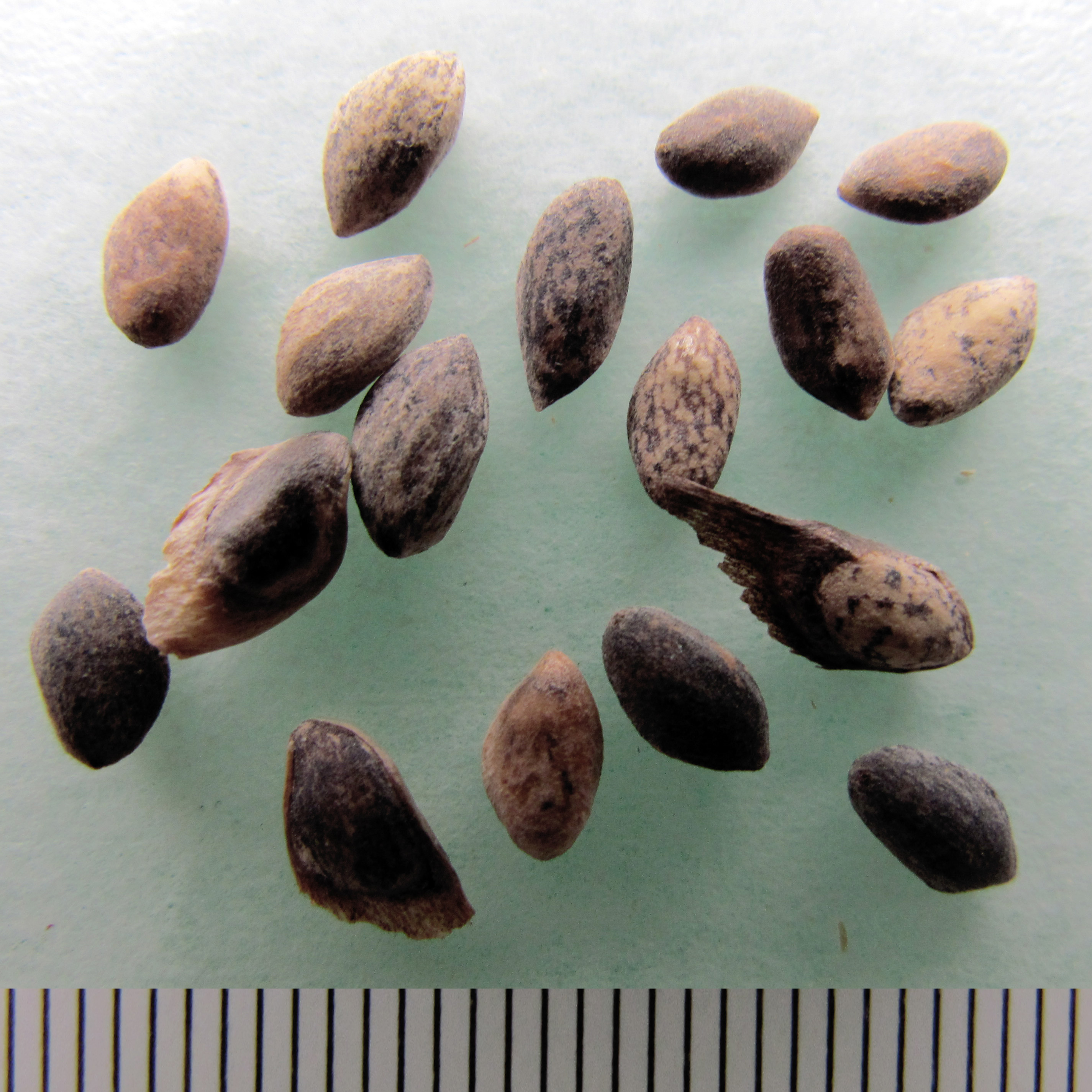 Pinus nigra seed pigmentation